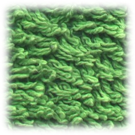 Toweling for towels and bathrobes